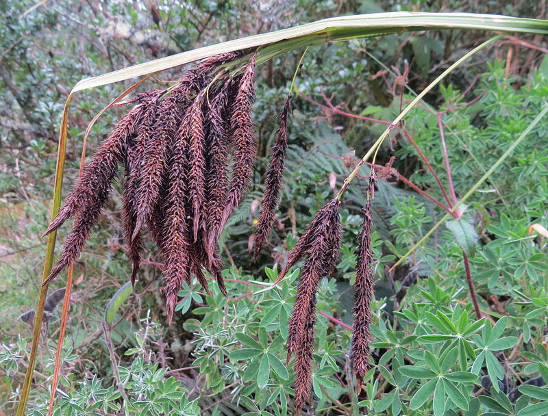 Carex jamesonii, Cayambe Coca Ecological Reserve, Ecuador